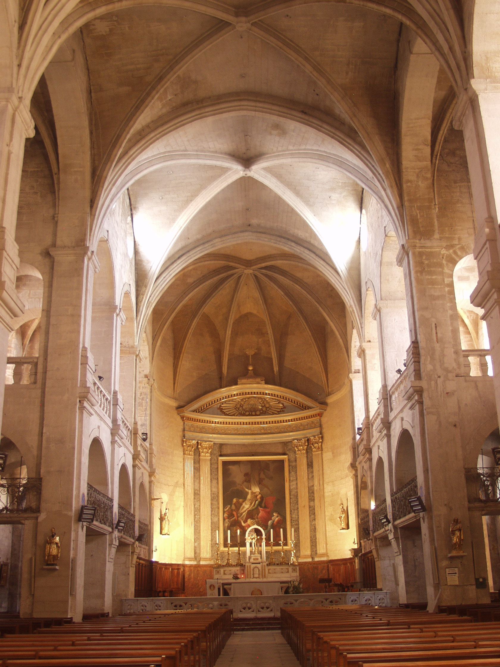 Cathédrale Saint-Théodorit d'Uzès